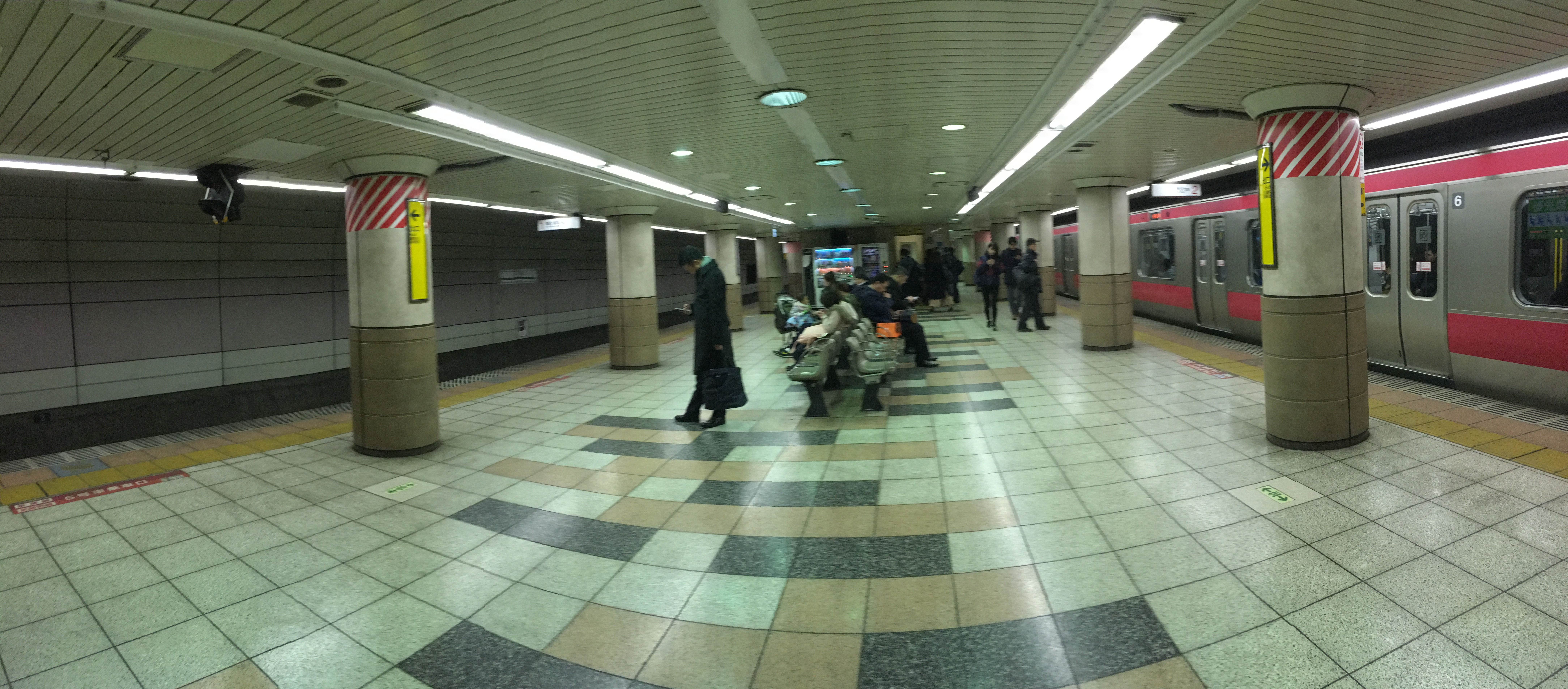 Hatchōbori Station JR platforms (JR八丁堀駅のホーム)